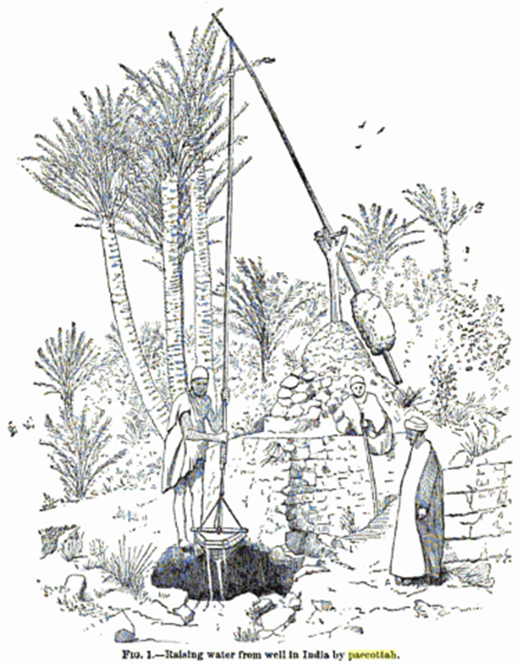 Raising water from a well using Paecottah (Shadoof). (1896)